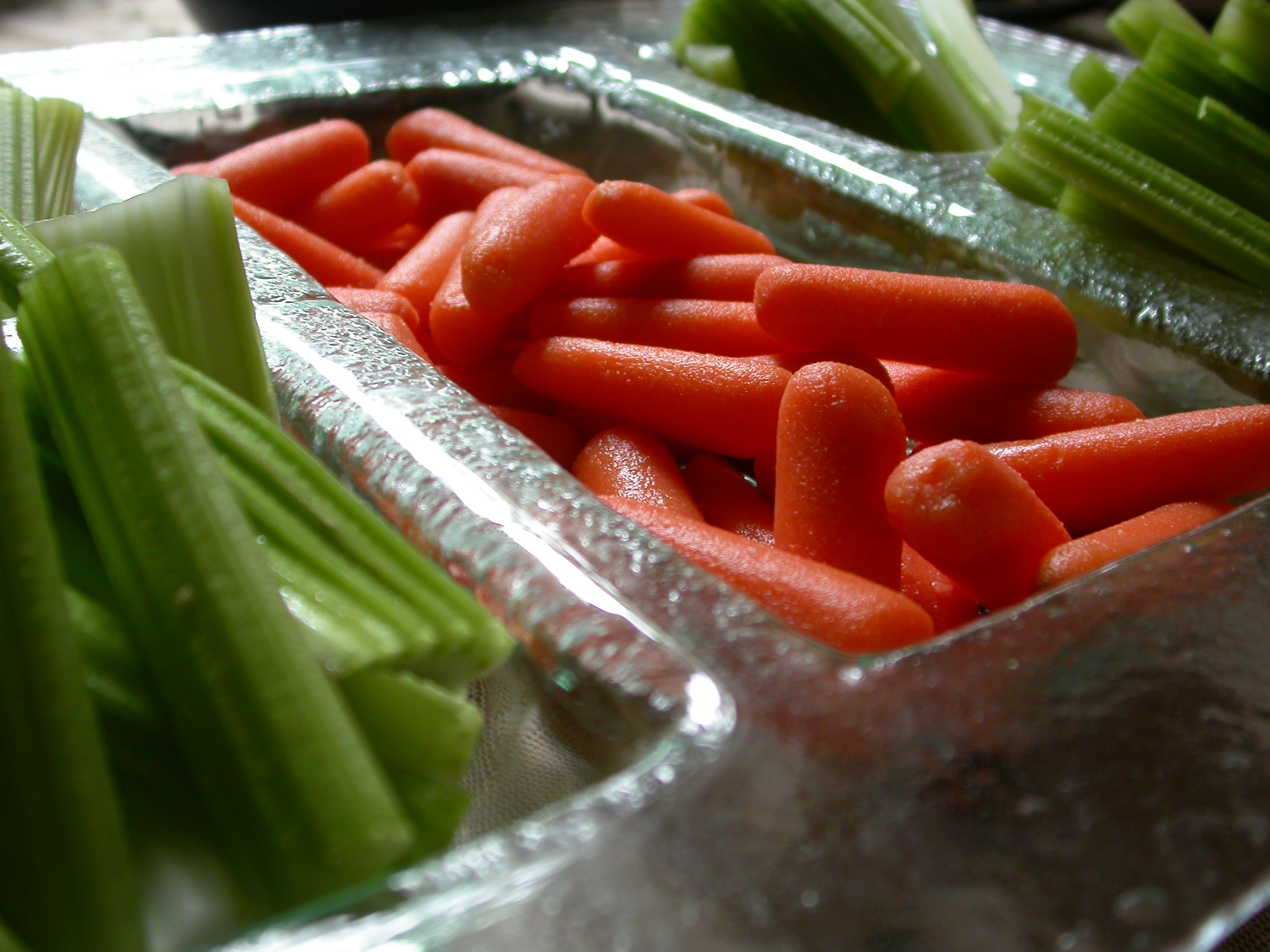 Crudités platter including carrots and celery